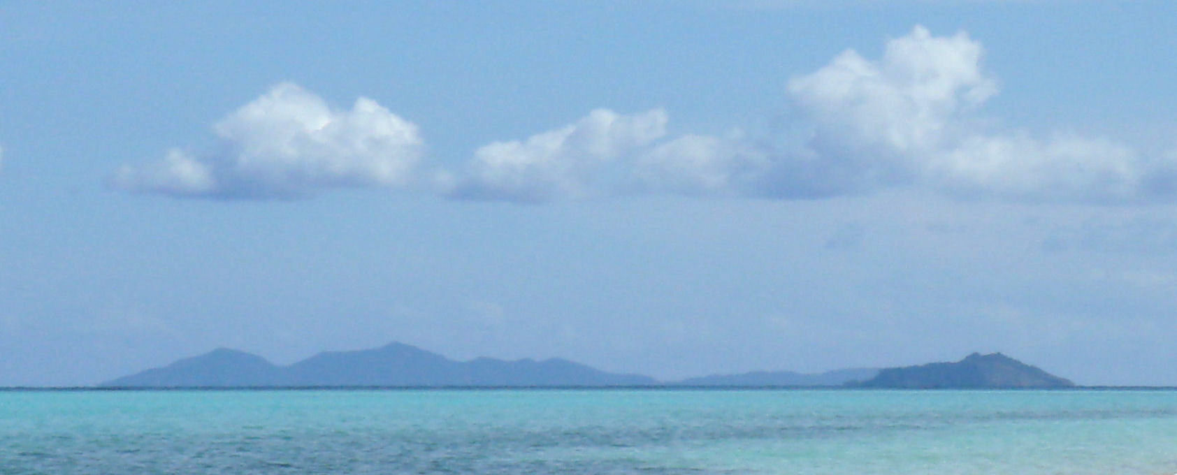 Agutaya_and_Oco_at_sealevel